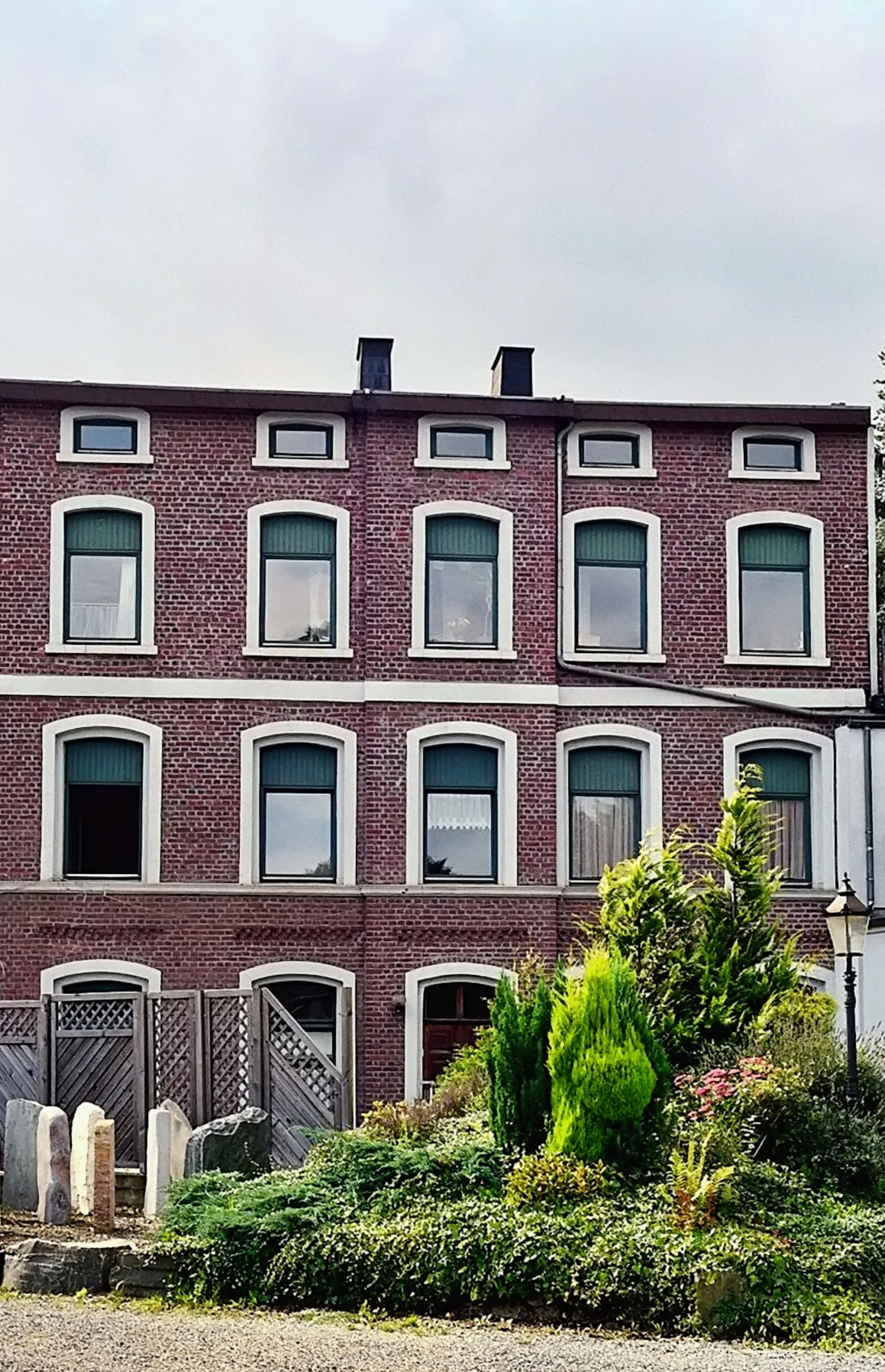 The house Ludwig Mies van der Rohe grew up at Vaalser Strasse 314 in Aachen, Germany.